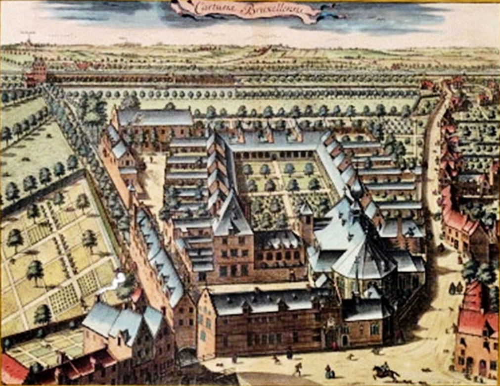 Carthusian monastery in Brussels. At the horizon the contours of Anderlecht and Scheut. Copper engraving by Jacob Harrewijn, as published in Antonius Sanderus, Chorographia Sacra Brabantiae (The Hague: Christian Lom ), 1727